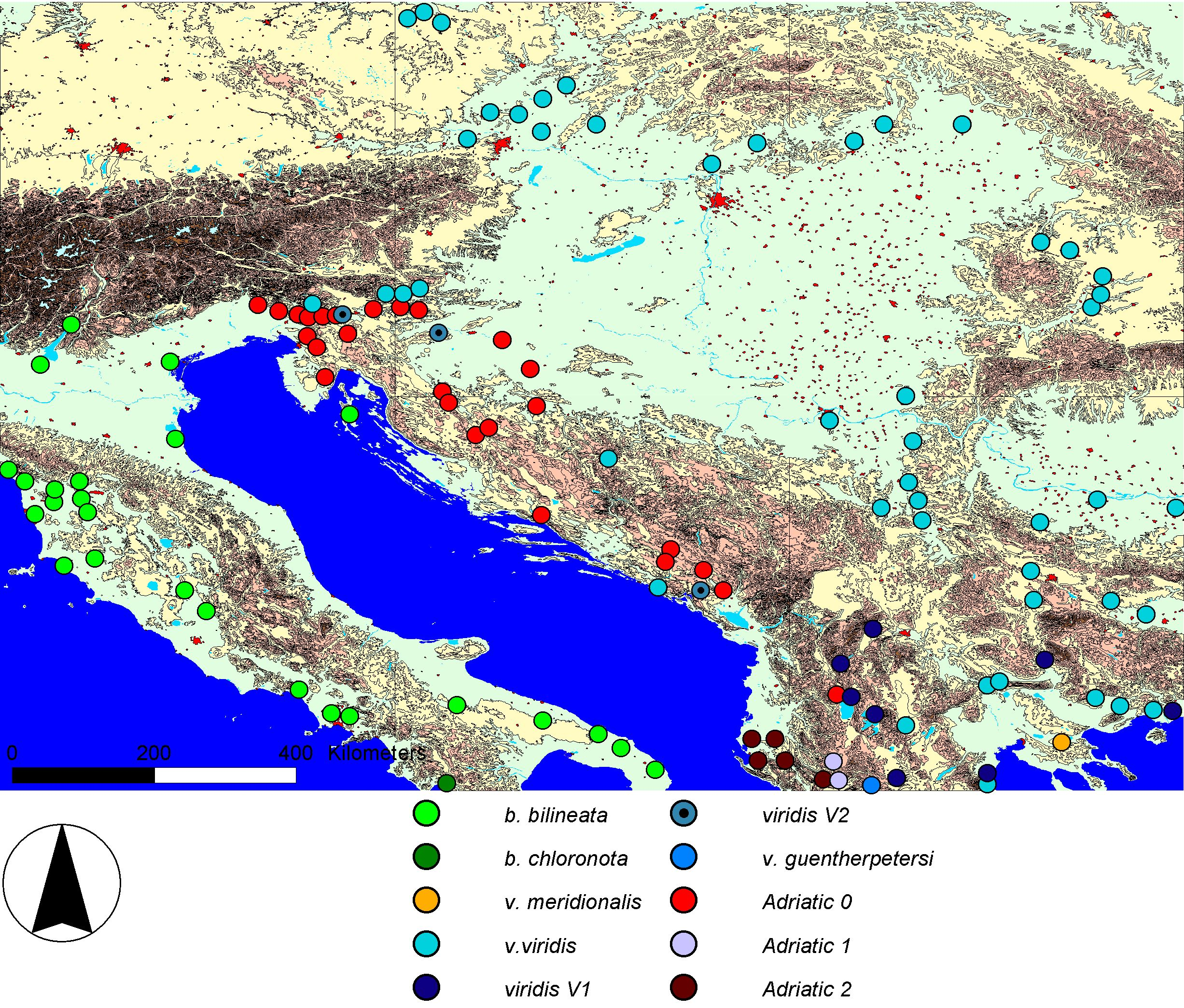 Lacerta viridis/bilineata and Adriatic lineage clades after Marzahn et al 2016 (Phylogeography of the Lacerta viridis complex: mitochondrial and nuclear markers provide taxonomic insights, 2016. In: Journal of Zoologica Systematics and Evolutional Research, 54(2): 185-205)